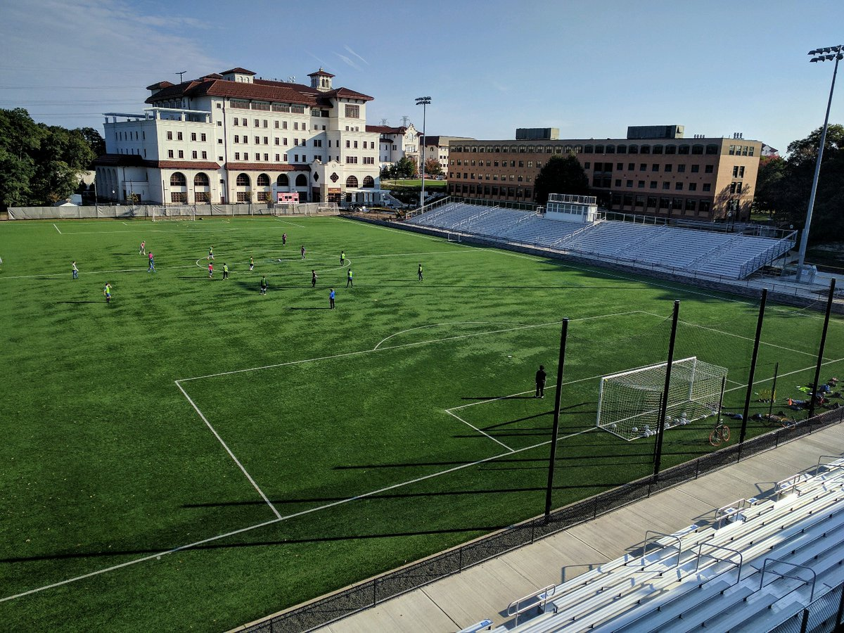 MSU Soccer Park facing north, following renovations in the summer of 2016